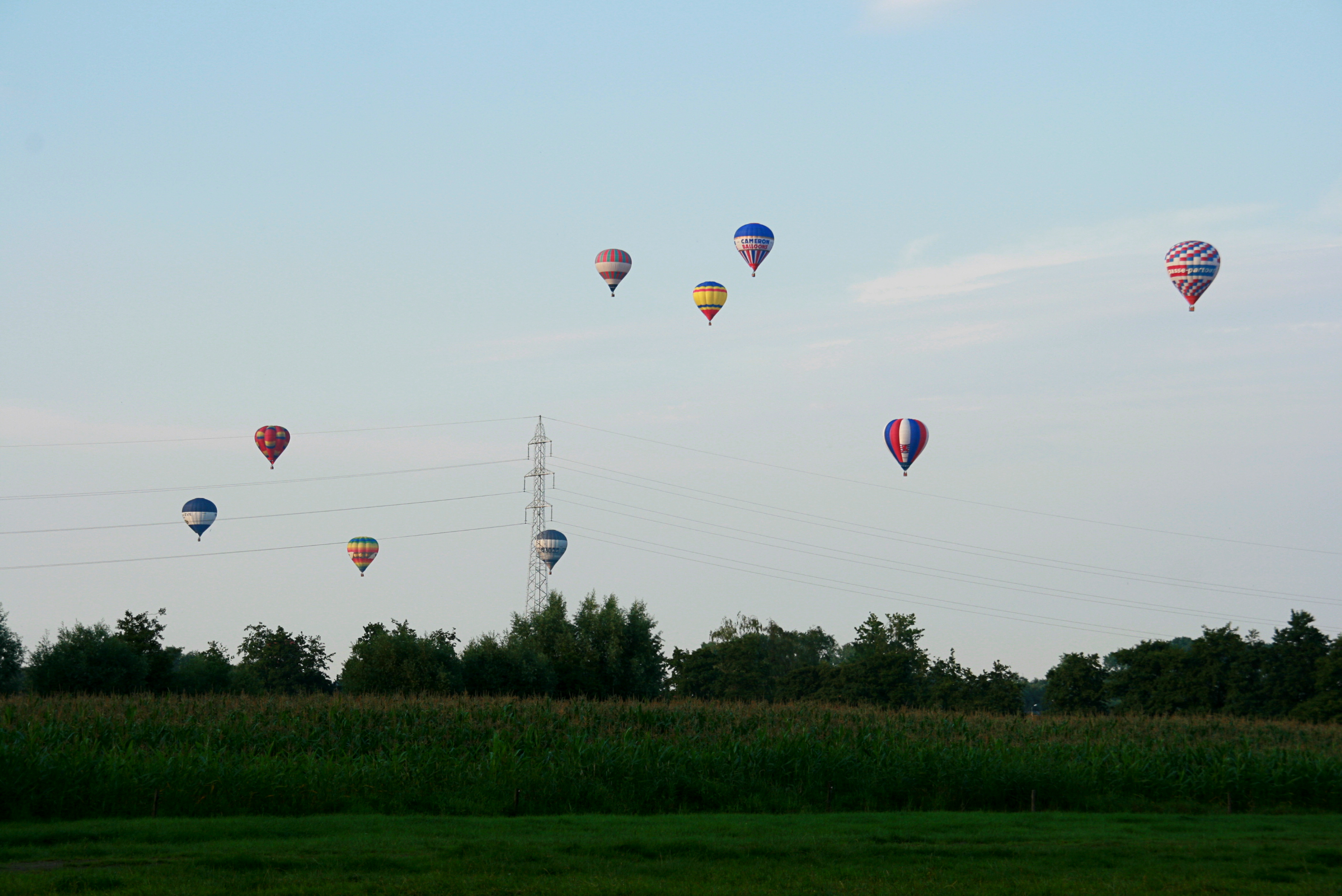 Multiple colorful hot air balloons in the sky